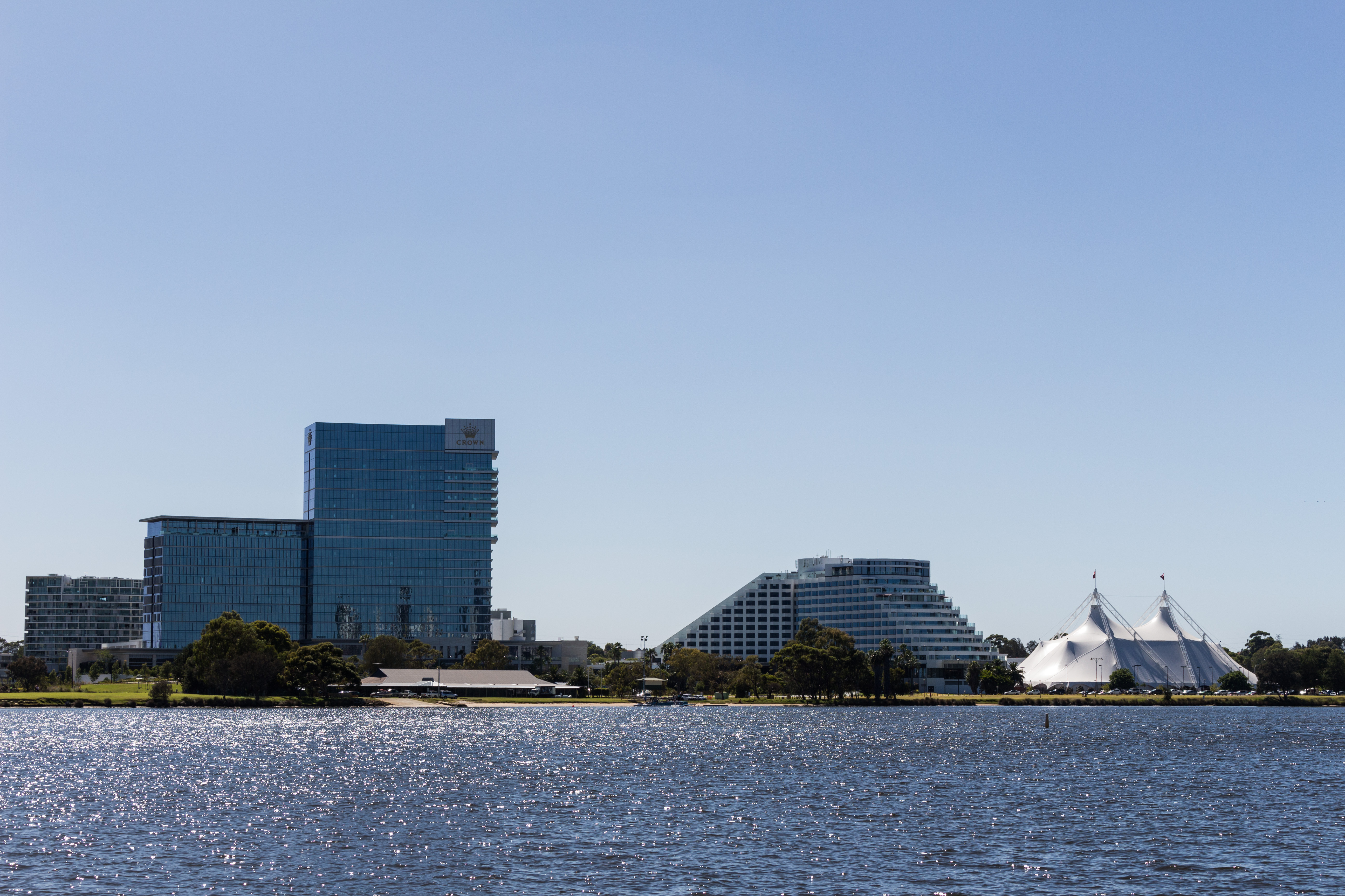 Crown Perth photographed from East Perth.